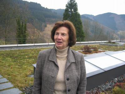 Mathematician Vera T. Sós at the workshop "Combinatorics" in Oberwolfach, 2008.